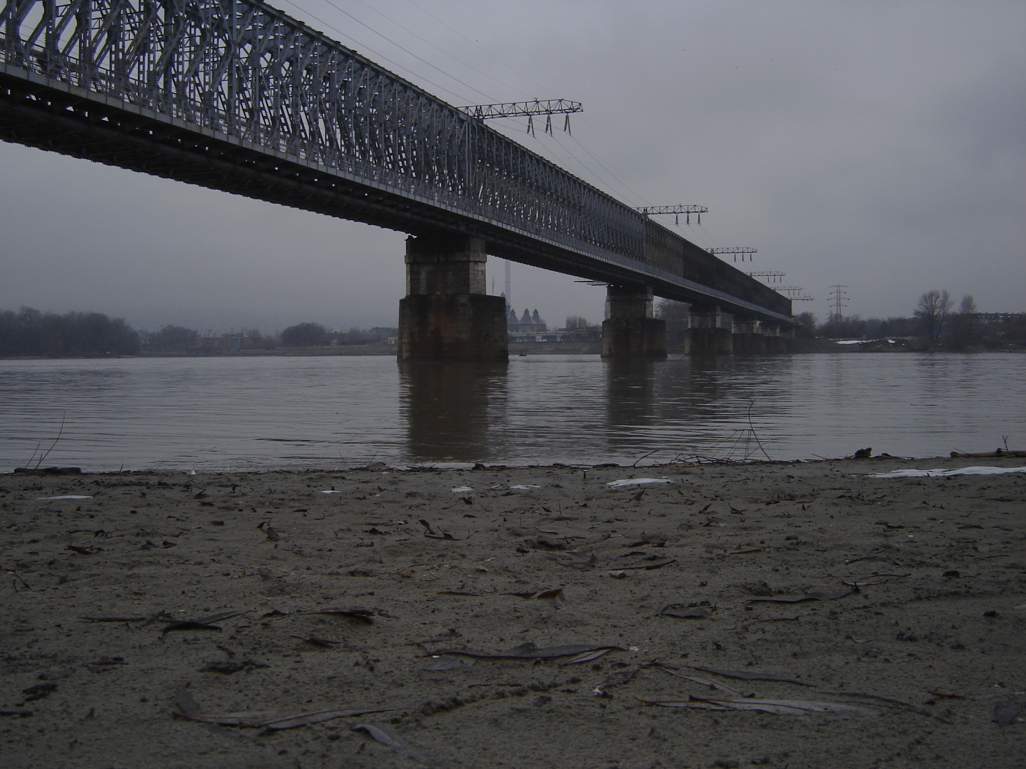 Northern Copulative Railway Bridge